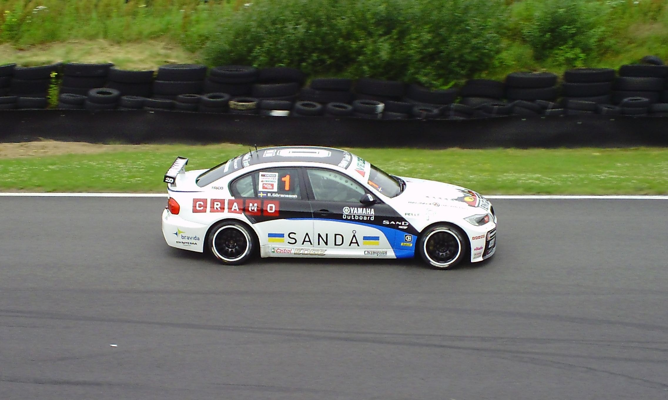 Richard Göransson driving his BMW 320si for WestCoast Racing at Falkenbergs Motorbana, during the fifth round of the 2011 Scandinavian Touring Car Championship (STCC) season.